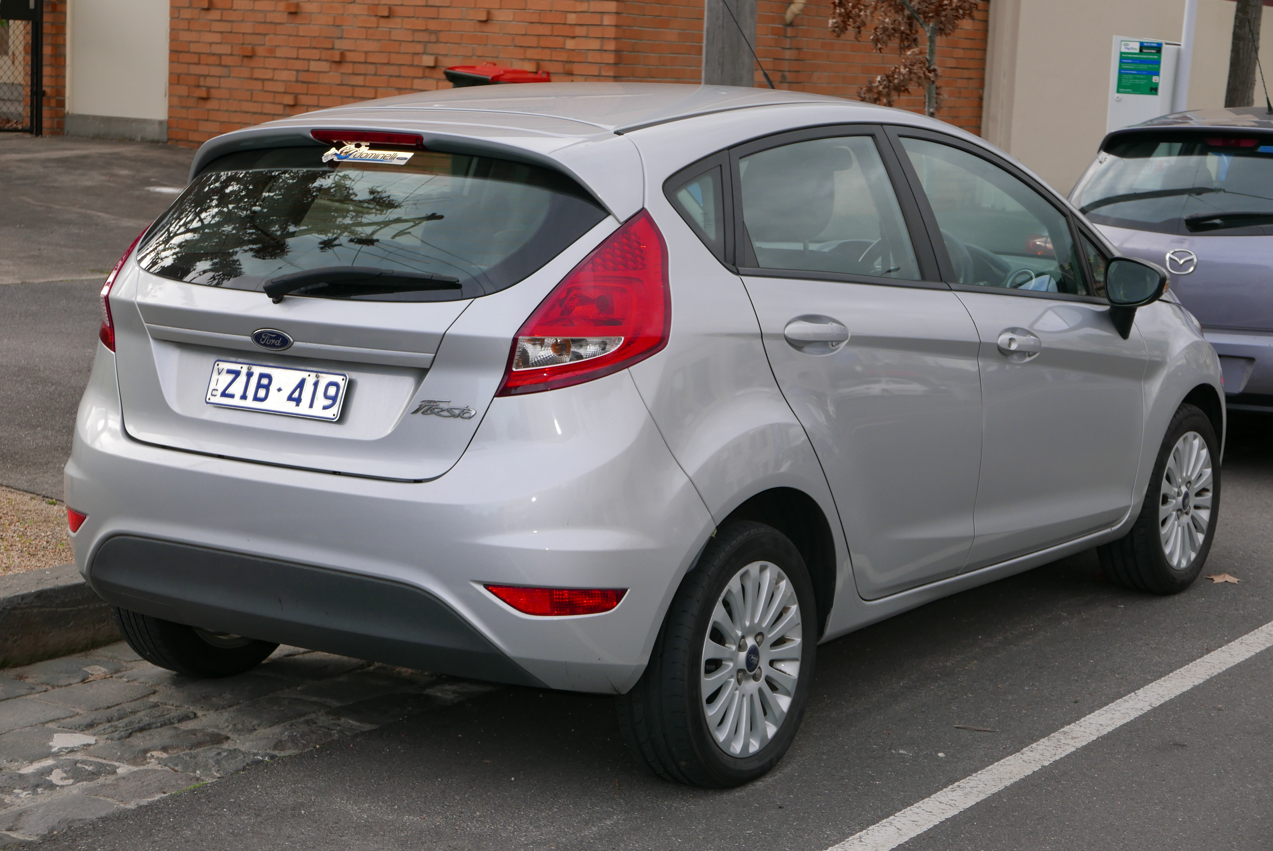 2010 Ford Fiesta (WT) LX 5-door hatchback. Photographed in West Melbourne, Victoria, Australia. Vehicle registration enquiry results Jurisdiction Victoria Registration ZIB419 Chassis code MNBJXXARJJAB15781 Engine code TSJAAB15781 Compliance date 2010-10 Year of manufacture 2010